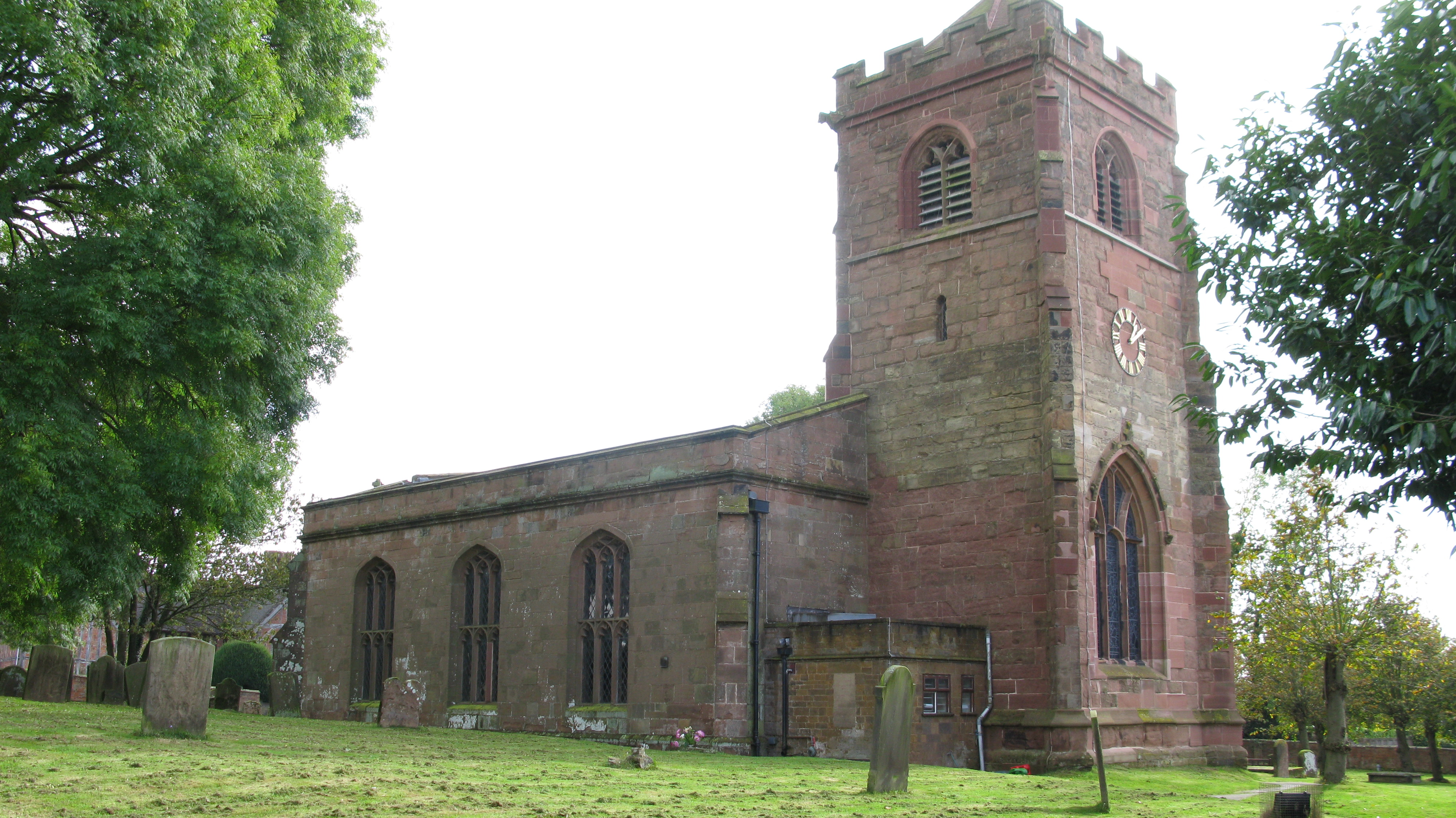 Depicted place: Church of St Lawrence